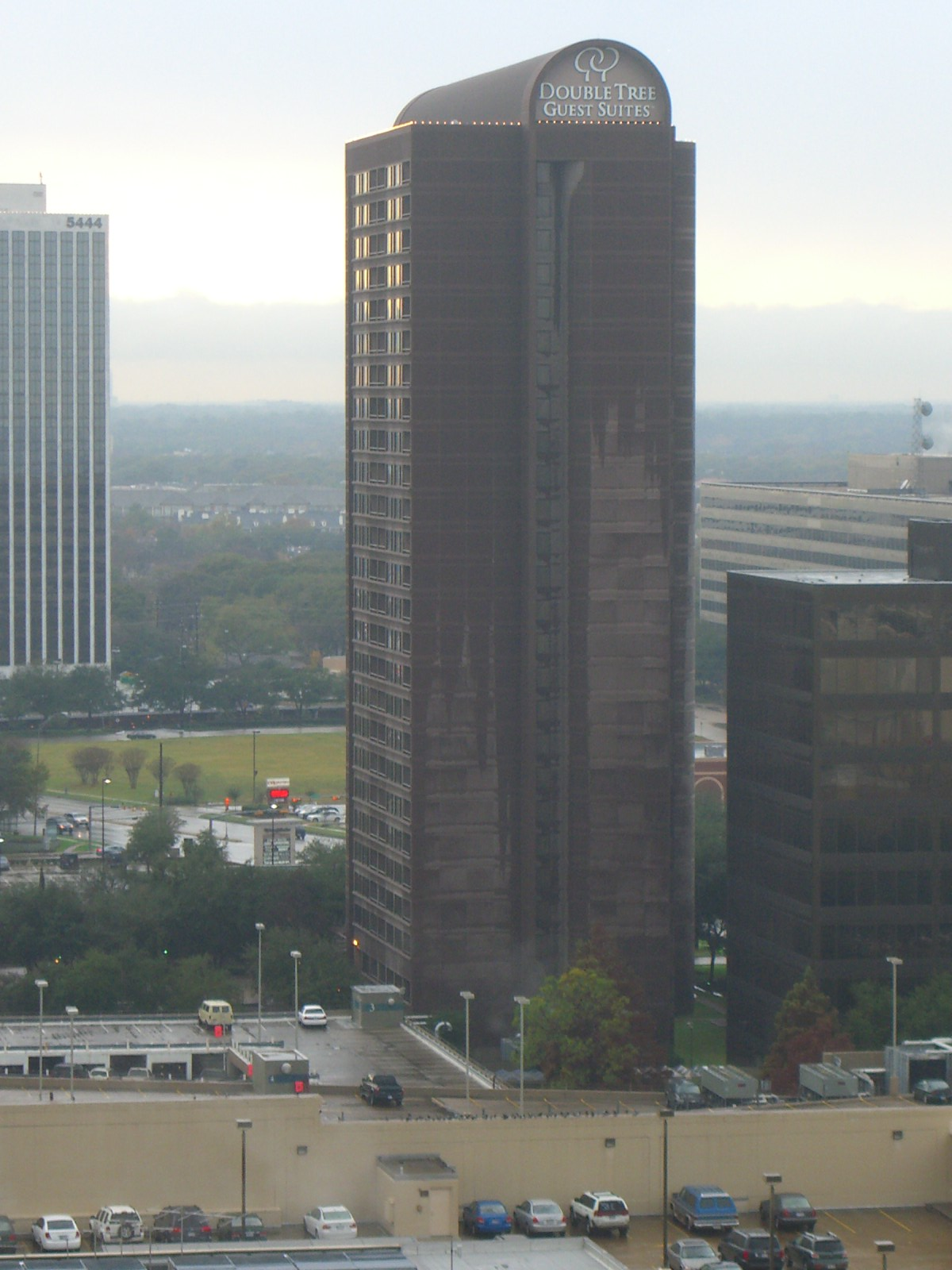 A Doubletree hotel